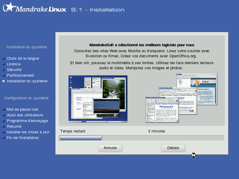 Ecran d'installation sous la Mandrake 9.1 Bamboo (2003)